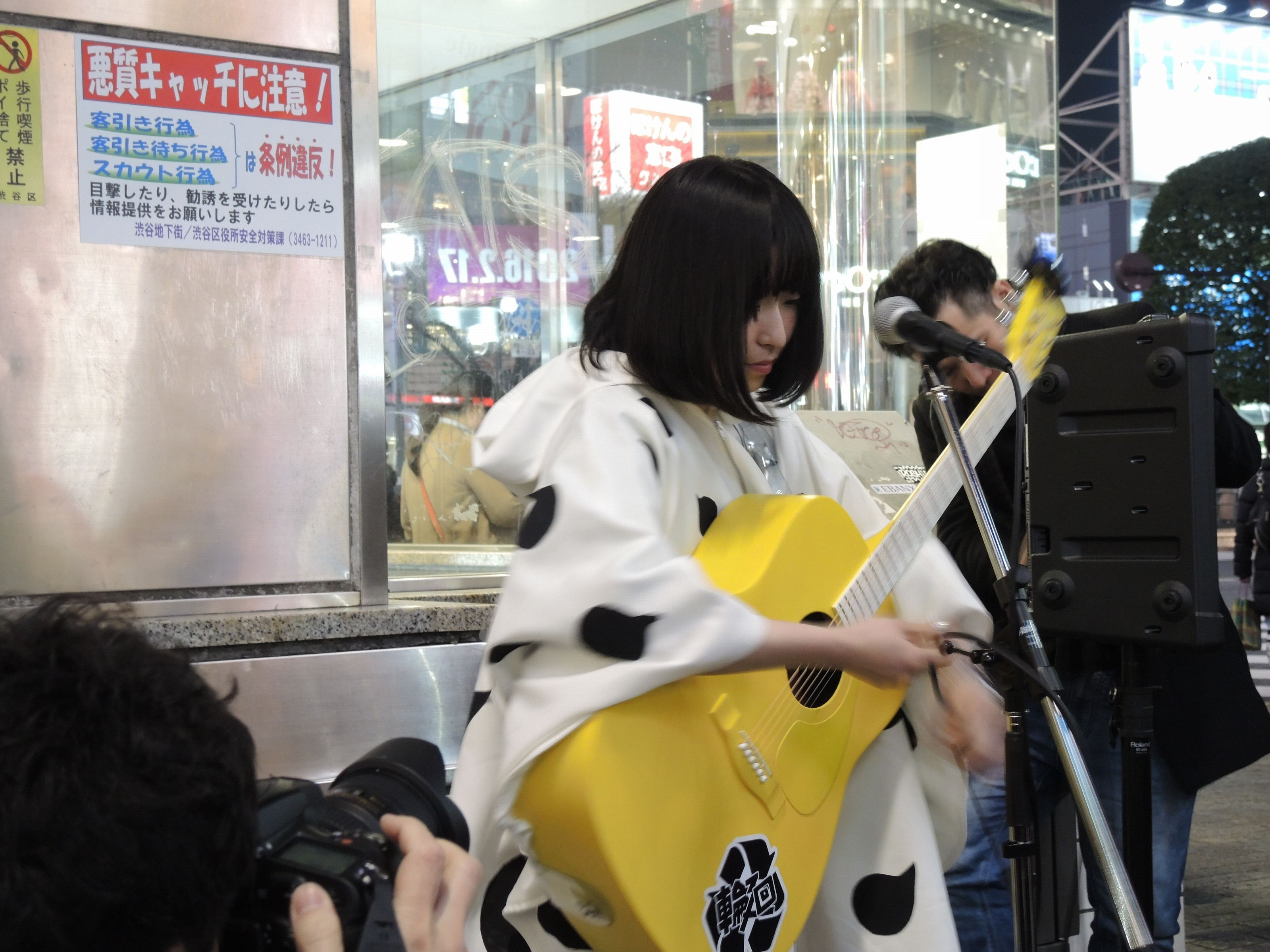 Sayuri performing in Shibuya, Tokyo.